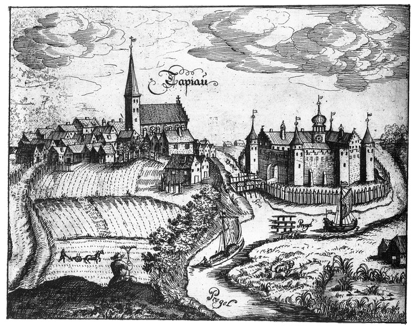 Gvardeysk (before 1945 Tapiau) - medieval print